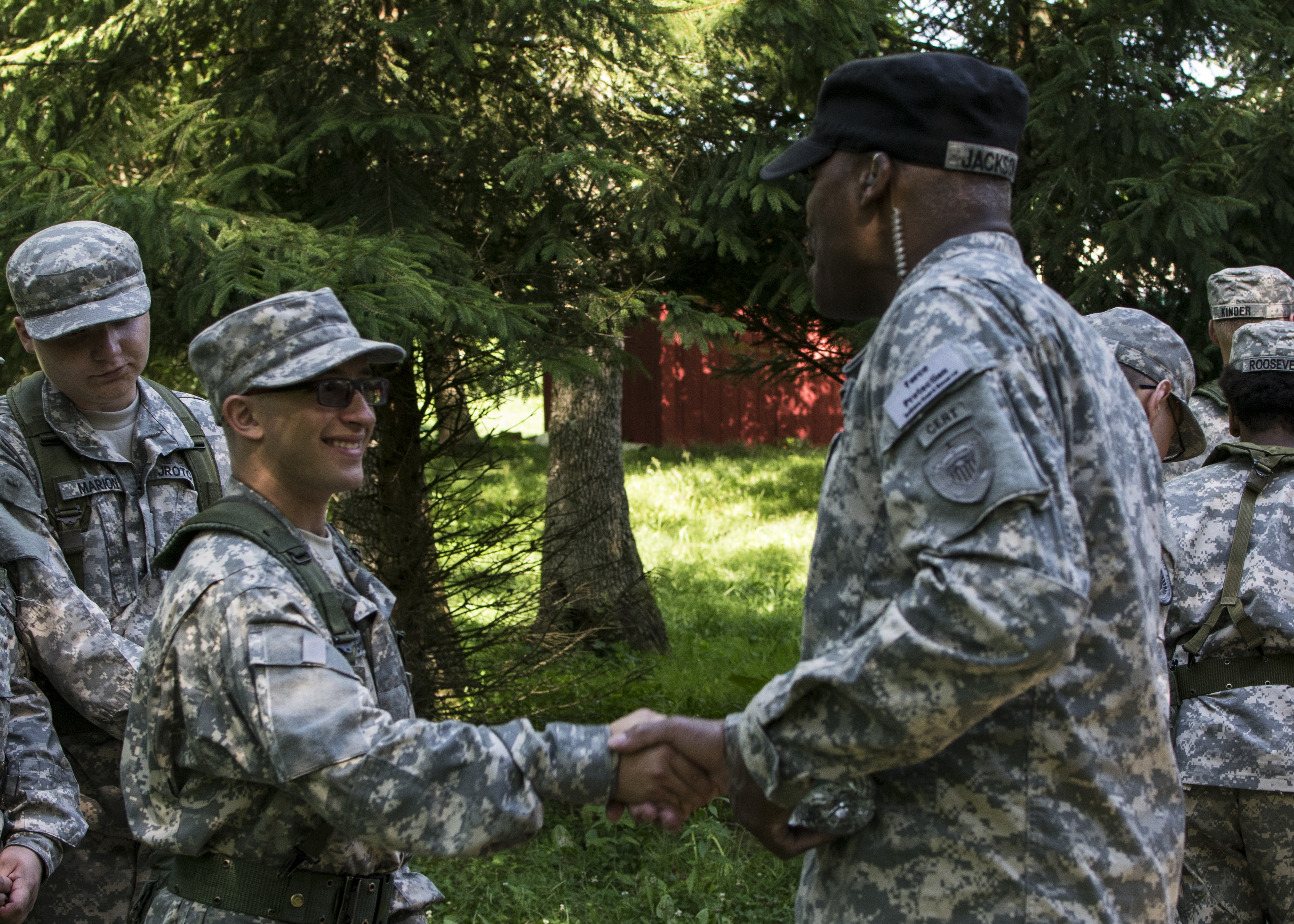 More than 200 Cadets from Indiana and Ohio attended the JROTC Cadet Leaders Course at Camp Atterbury from the 27th of June to the 2nd of July with help from the Indiana Guard Reserve and the Indiana National Guard. The Cadets took part in confidence building events such as the Leaders Reaction Course, Rappel Tower, Land Navigation and Water Survival where they developed their leadership and team building skills.